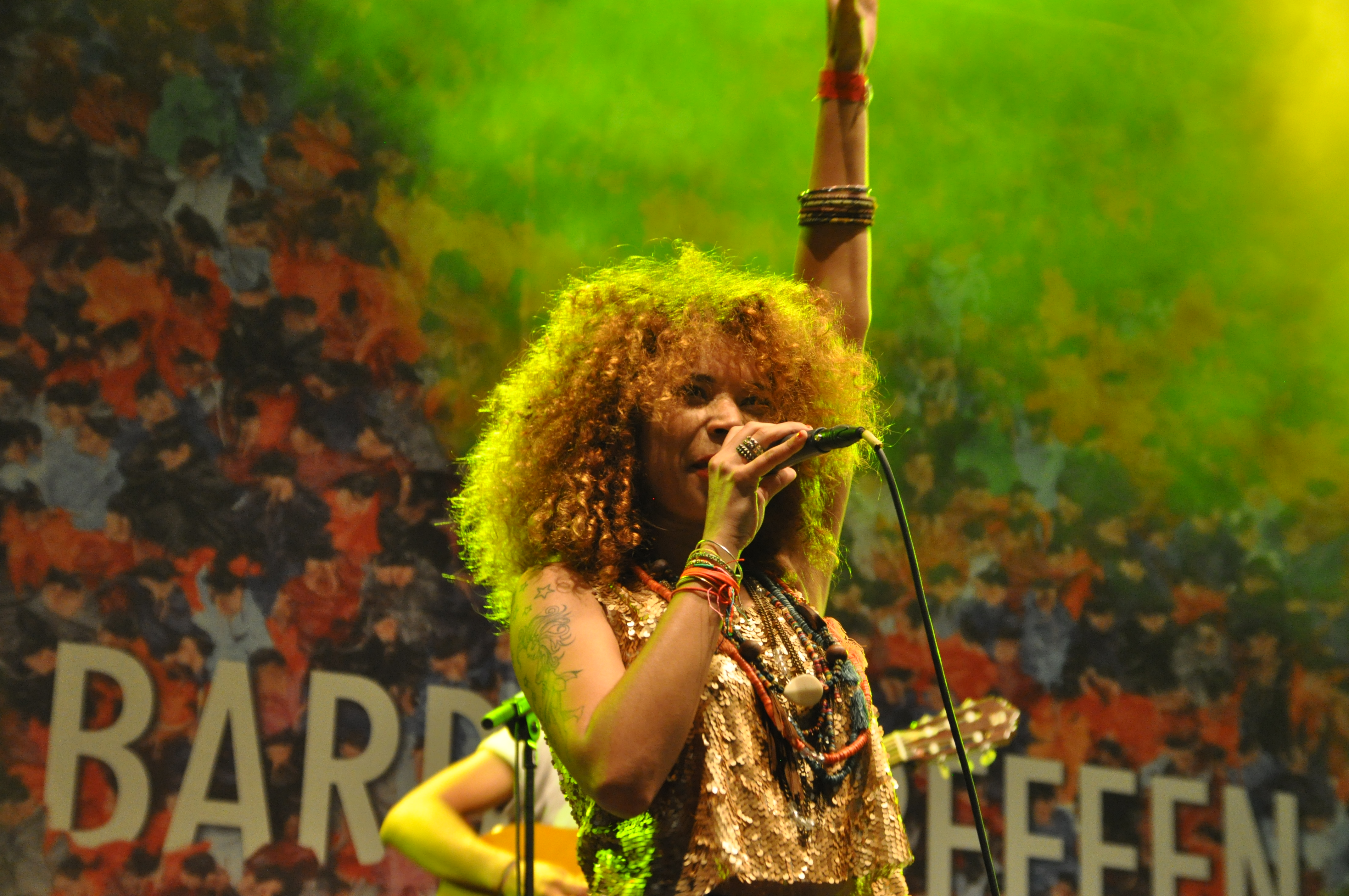 Flavia Coelho (Brazil), appearance at the 38th music festival "Bardentreffen" 2013 in Nuremberg, Germany, Schuett Isle stage